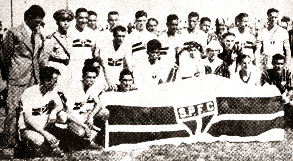 squad of São Paulo Futebol Clube in 1936. Not in sequence: King, Ruy, Picareta, Ferreira, José, Segoa, Antoninho, Hermenegildo Gabardo, Fogueira, Carrazo and Paulinho.